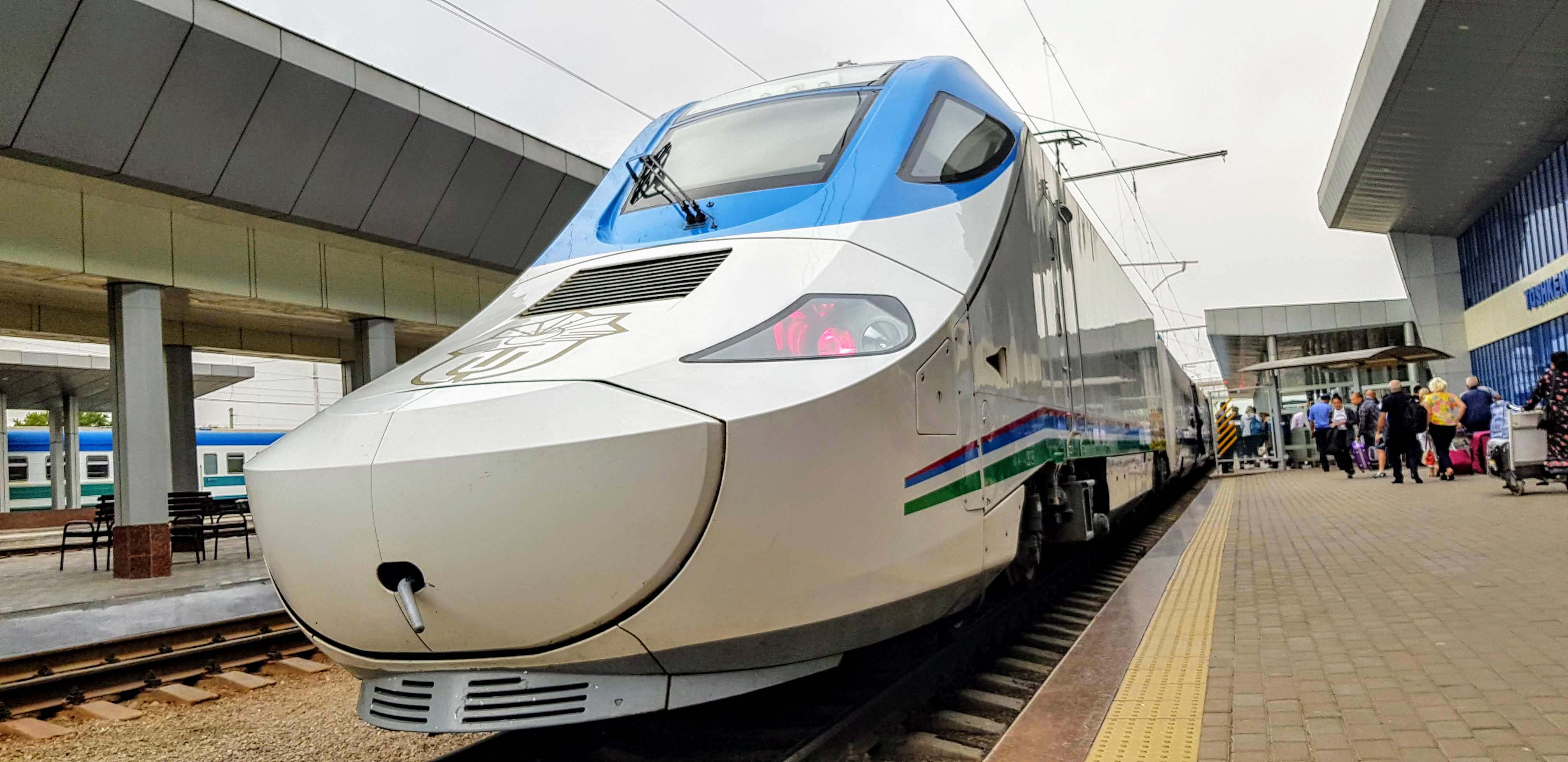 Afrosyab in Tashkent railway station